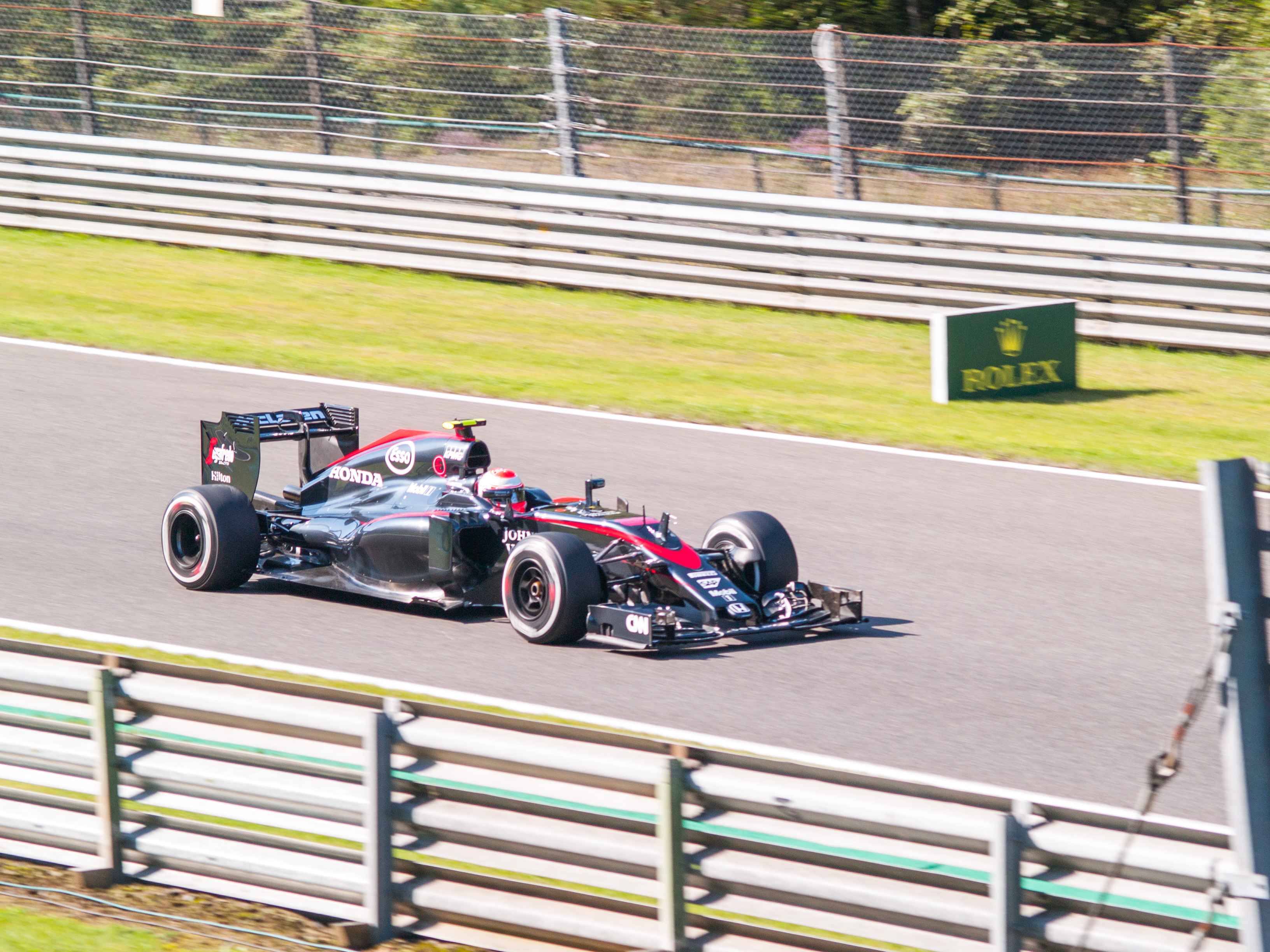 Jenson Button at the 2015 Belgian Grand Prix